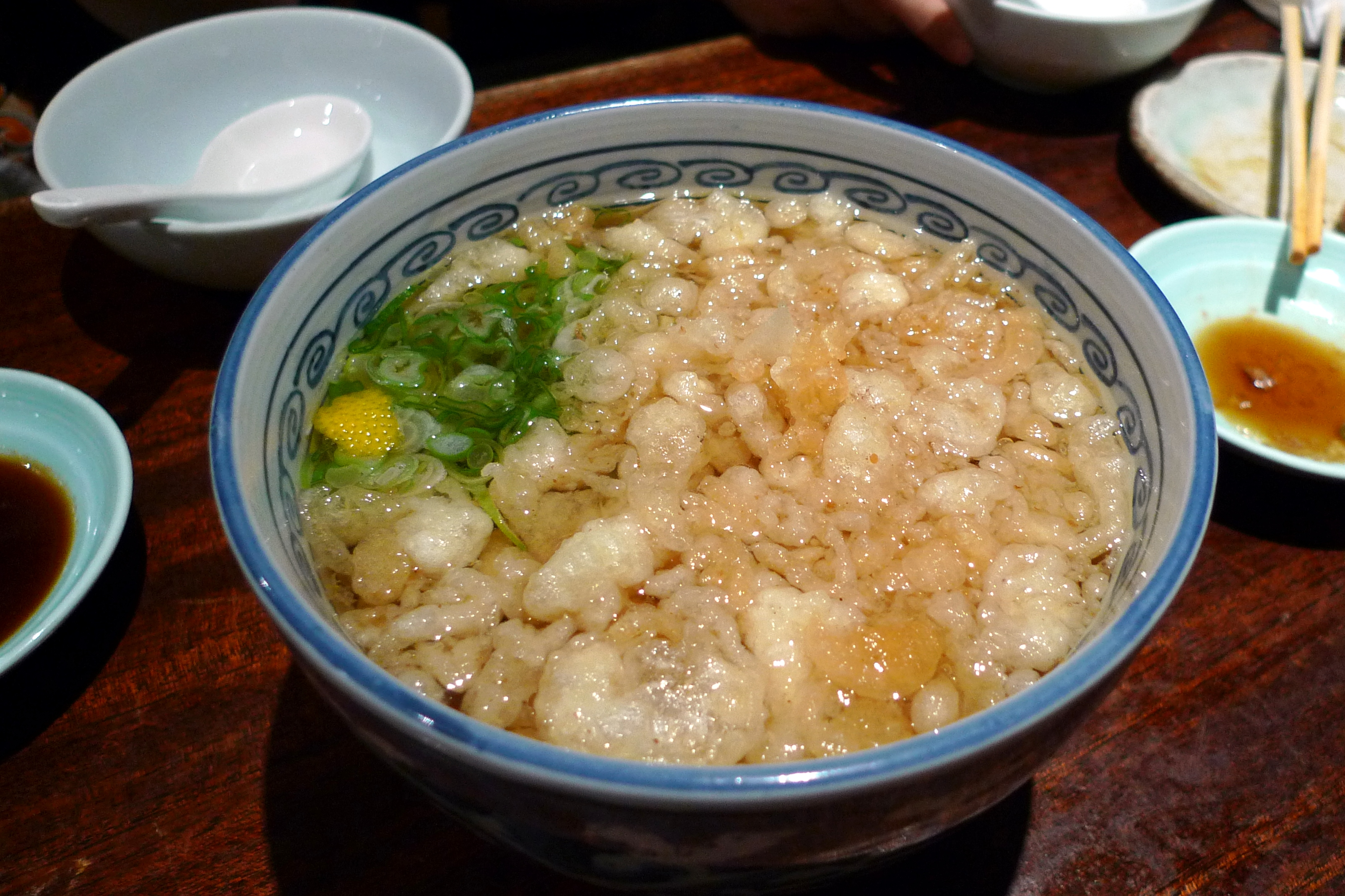 The tanuki udon, a soup with udon noodles and bits of lovely dough. Very tasty. At Jin Kichi, Heath Street.